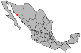 Locator map of Guaymas, Sonora, Mexico